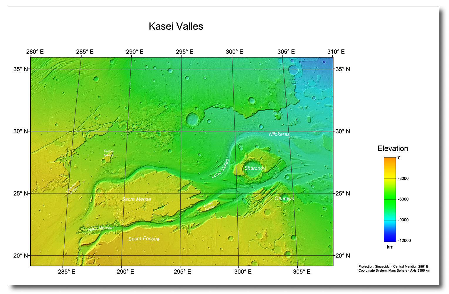 A topograpfy map over Kasei Valles on Mars.